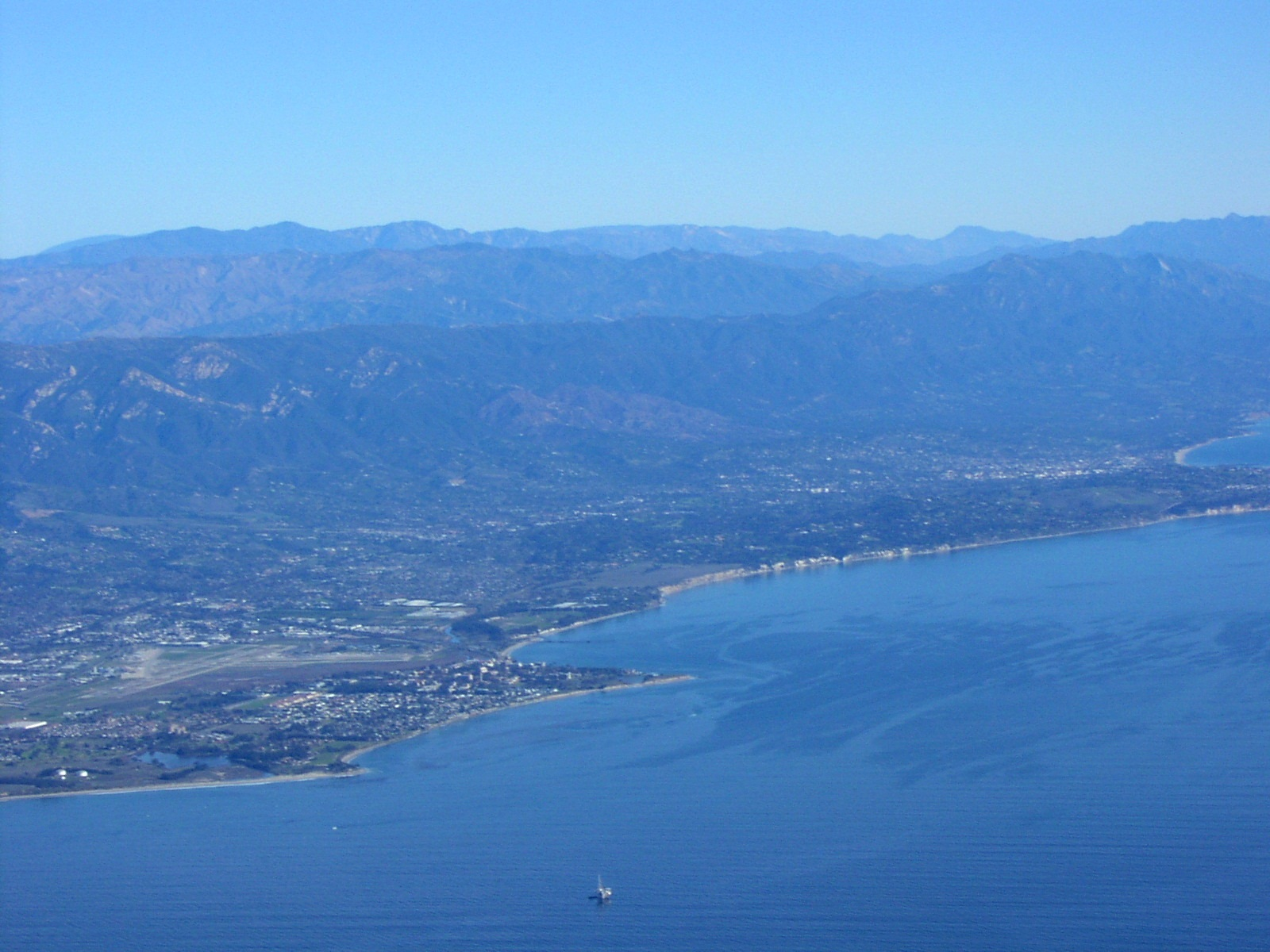 South Coast of Santa Barbara County. Left to right: UC Santa Barbara, Goleta, Hope Ranch, city of Santa Barbara - and Platform Holly in foreground - Santa Ynez Mountains mid-backround & San Rafael Mountains beyond. Only the most distant mountains on the far right are in Ventura County.